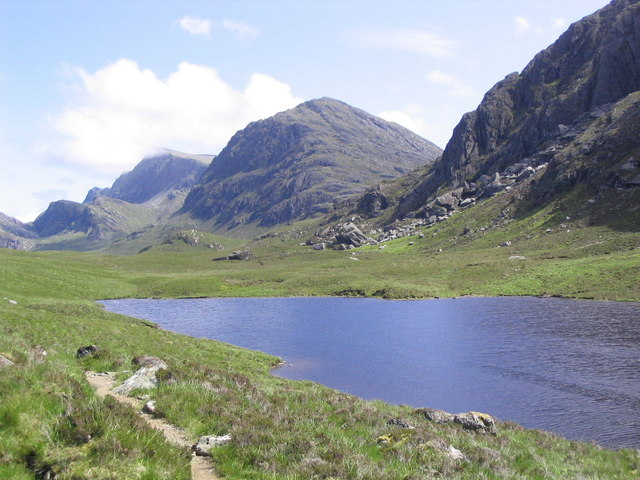 Loch an Doire Crionaich Meall. Mheinnidh is the hill in the centre with the mist on Beinn Lair beyond.